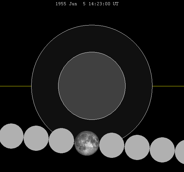 June 1955 lunar eclipse chart of moon's path through the earth's shadow. thumb